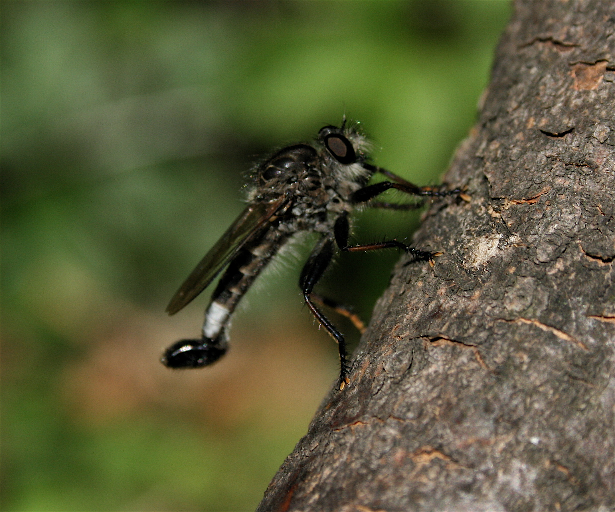 Robberfly (Efferia aestuans) in Portage, MI.